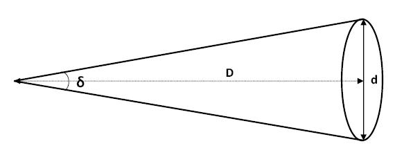 This diagram explains how the formula for calculating the Angular diameter is formulated.